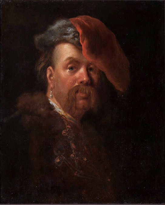 Gáspár Békés